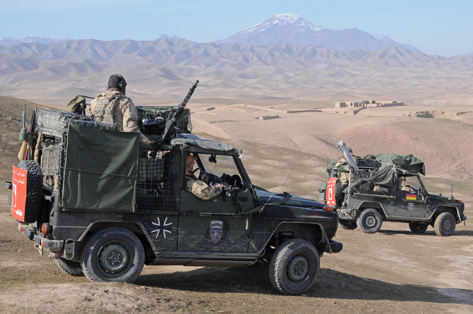 Fayzabad, Afghanistan: German soldiers with Mobile Observation Liaison Team conduct a long term patrol in Keshem, January 21st. The Germans are helping ISAF in assisting the Afghan government in extending and exercising its authority and influence across the country, creating the conditions for stabilization and reconstruction.